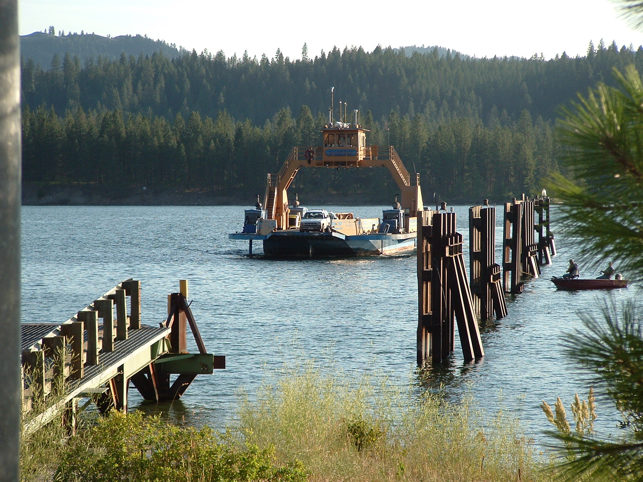 James Stripes, Gifford Ferry crossing Lake Roosevelt near Inchelium, Photo by James Stripes JStripes 23:53, 12 March 2007 (UTC)